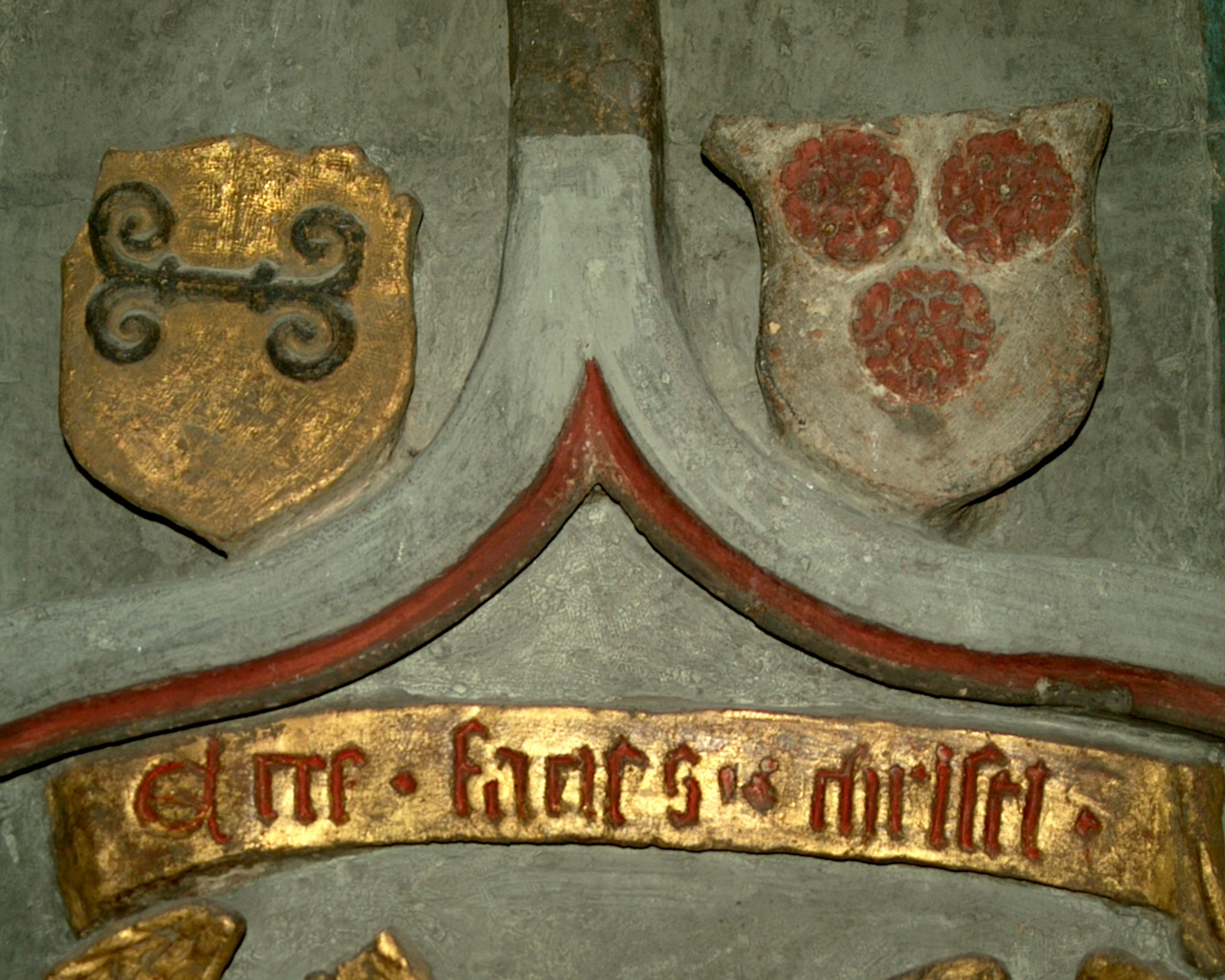 Coat of arms of Hatzfeld family (anchor plate), owner of the Lordship of Wildenburg (roses). Tabernacle, St. Sebastian, Friesenhagen.